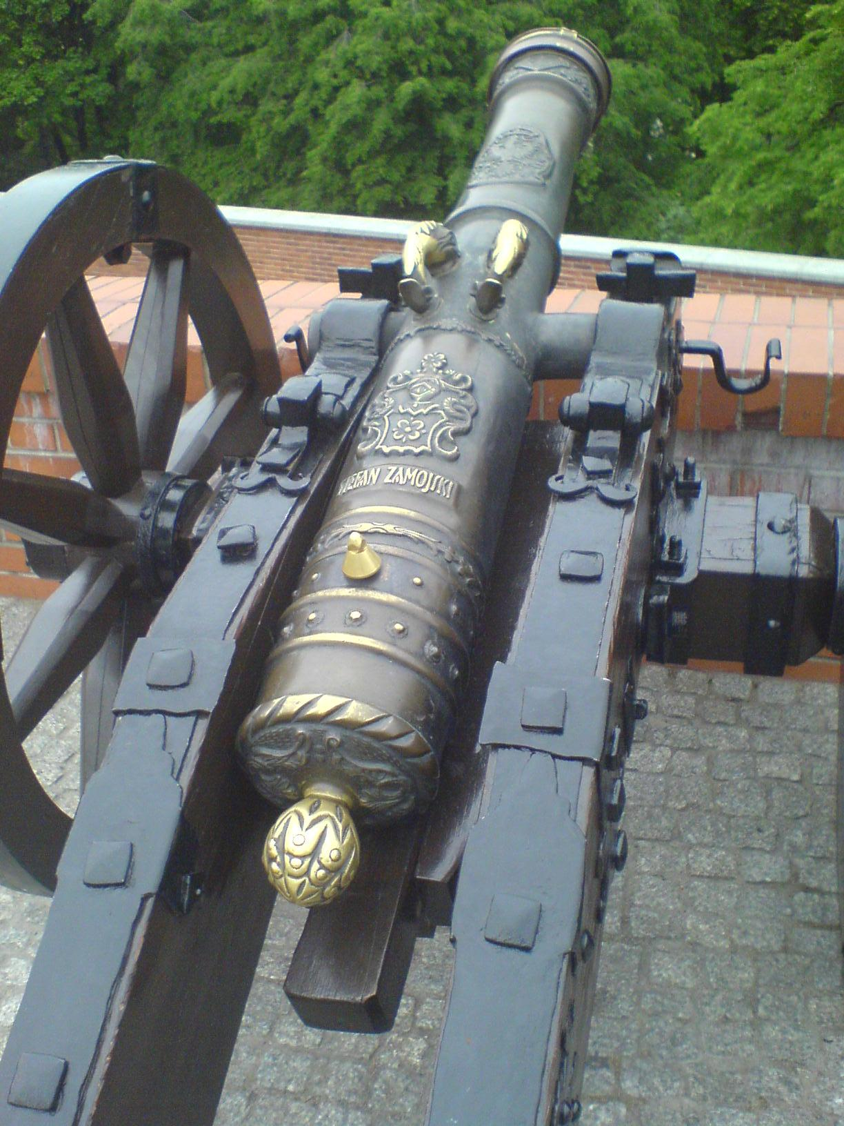 Culverin from Jasna Góra Monastery.